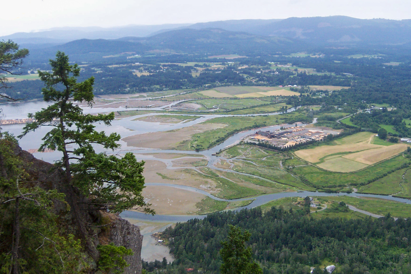 View of the Cowichan River delta from Mt Tzouhalem.